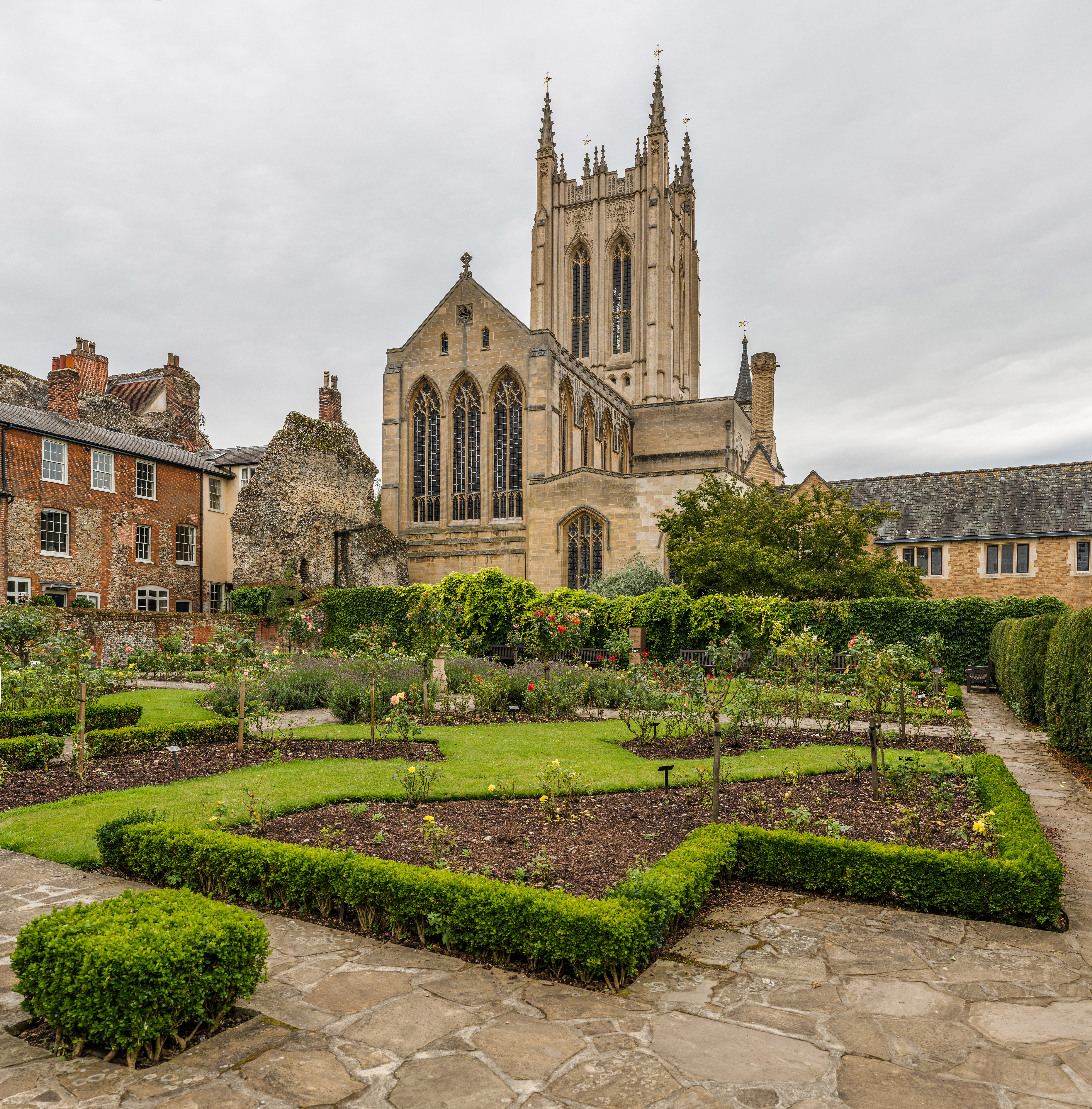 The view looking west towards St Edmundsbury Cathedral in Suffolk, England.